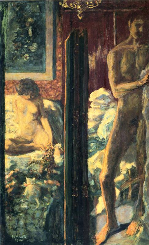 Painting by Pierre Bonnard